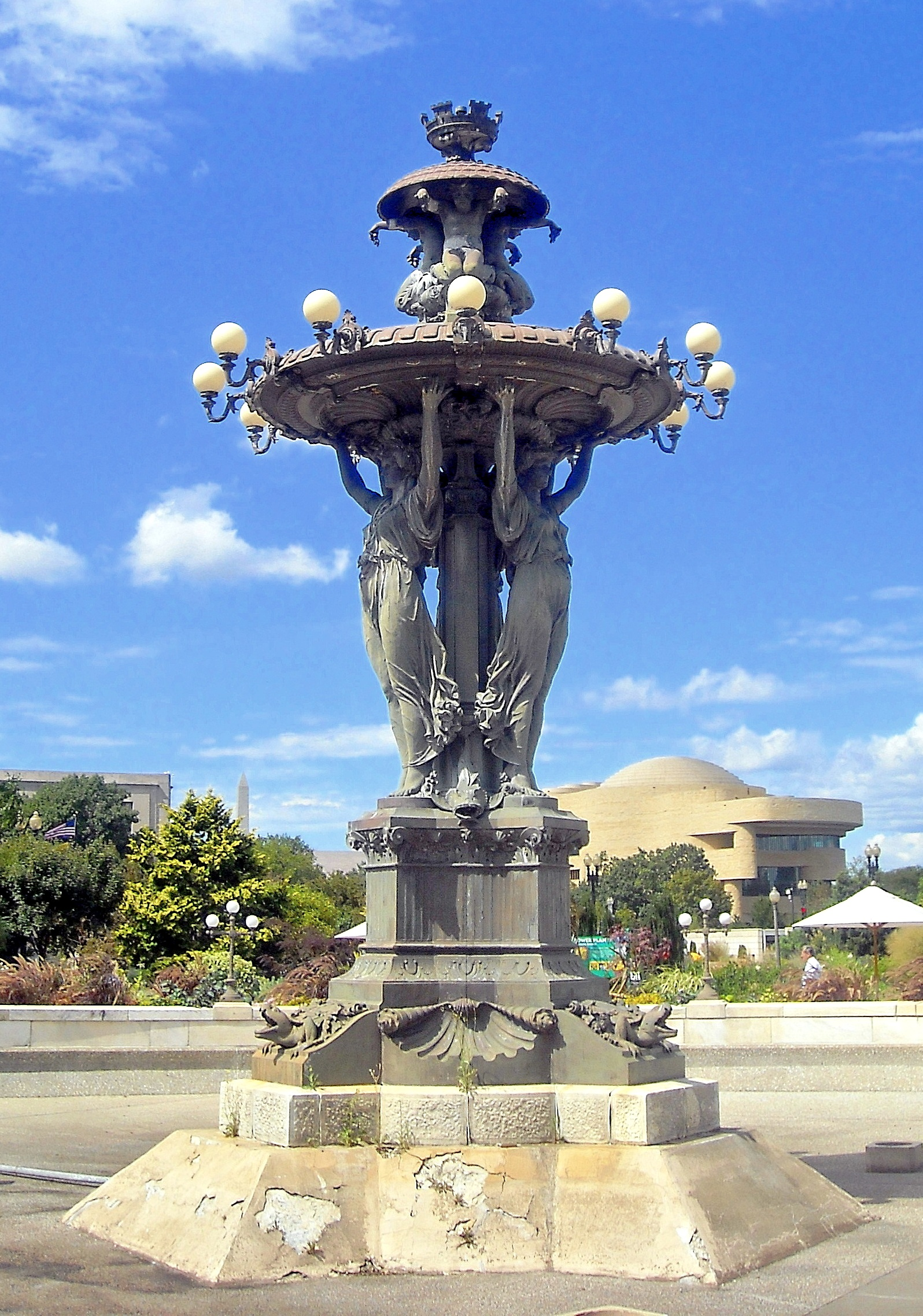 The Bartholdi Fountain, sculpted by Frédéric Auguste Bartholdi, located at the United States Botanic Garden in Washington